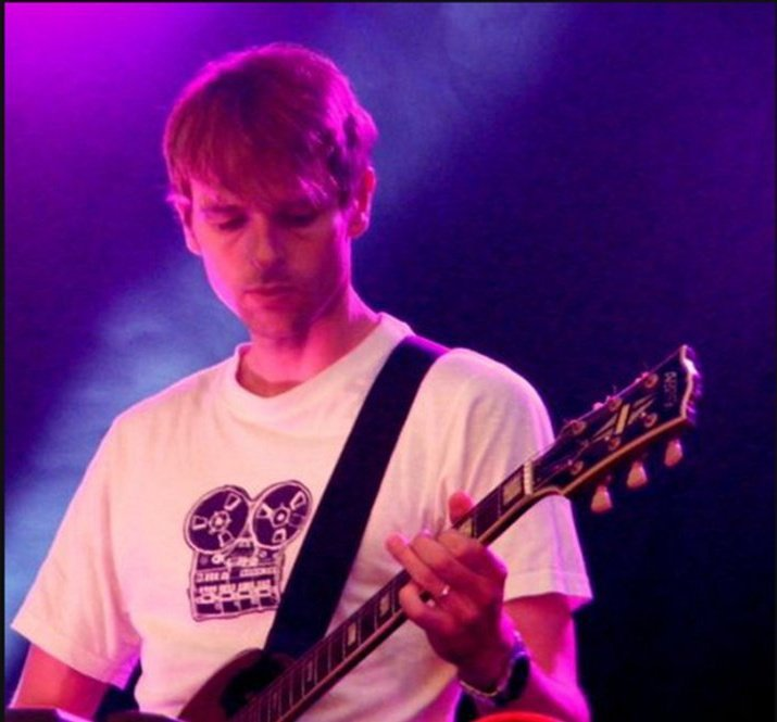 Matthew J Saunders performing live at the ICA, London 2006